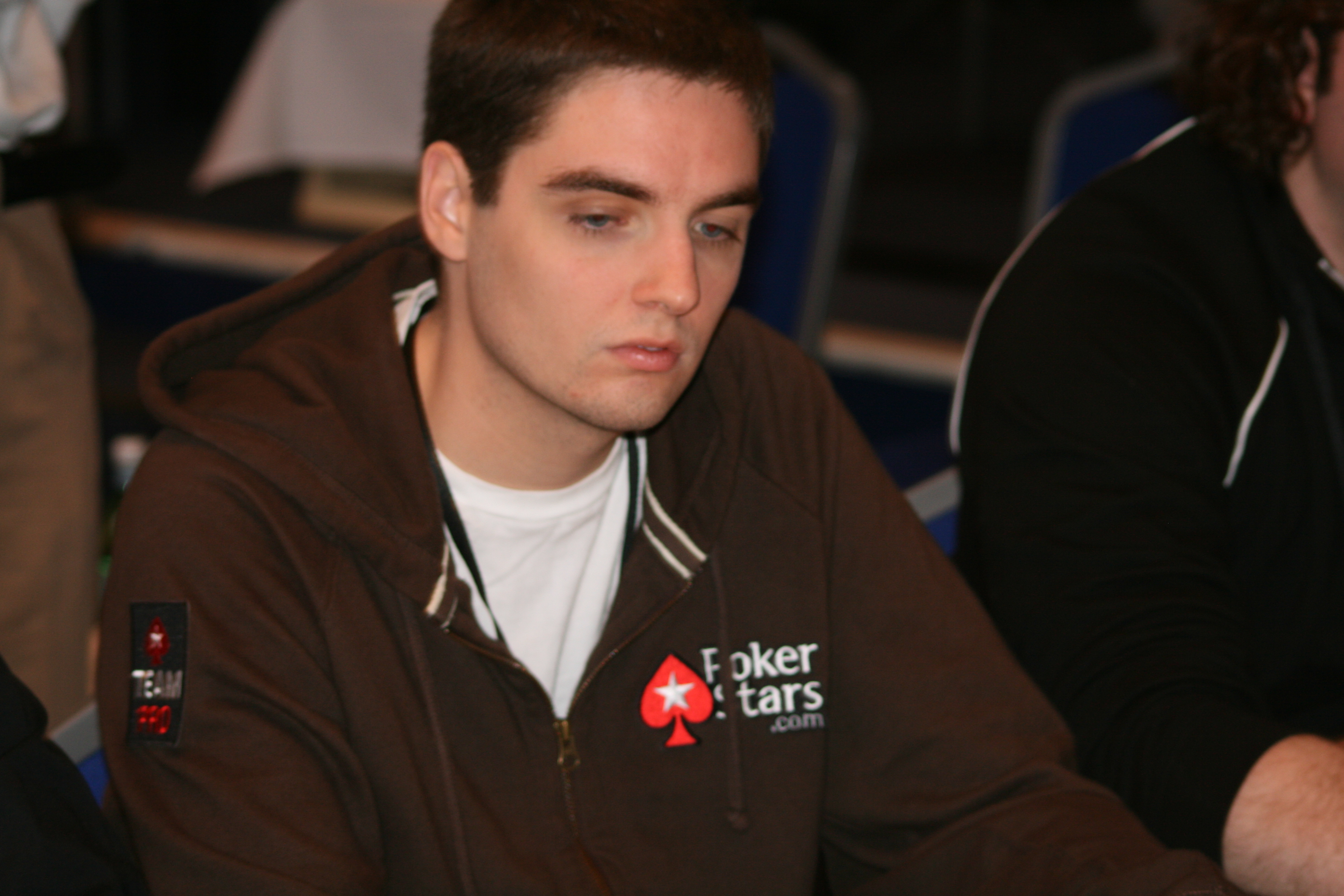 Steve Paul-Ambrose playing at the European Poker Tour Grand Final in 2008